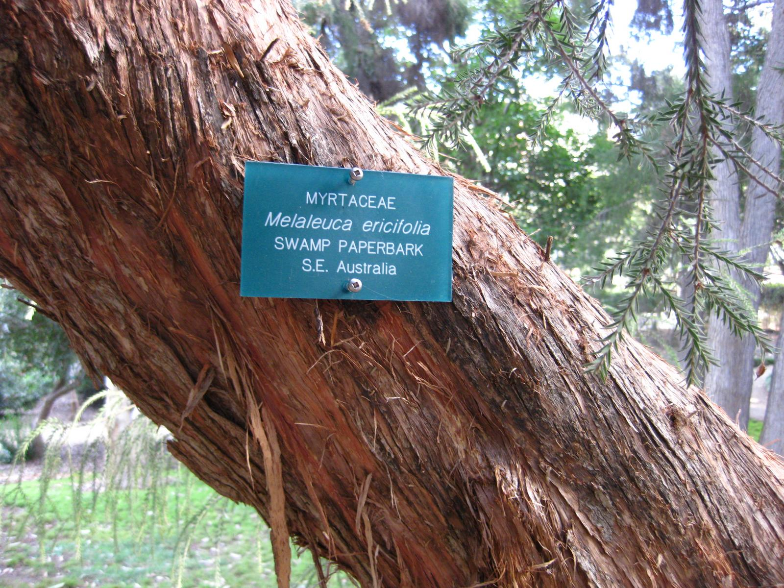 Melaleuca ericifoliia trunk. Photographed at Mildred E. Mathias Botanical Garden at UCLA, Westwood, (Los Angeles, California).